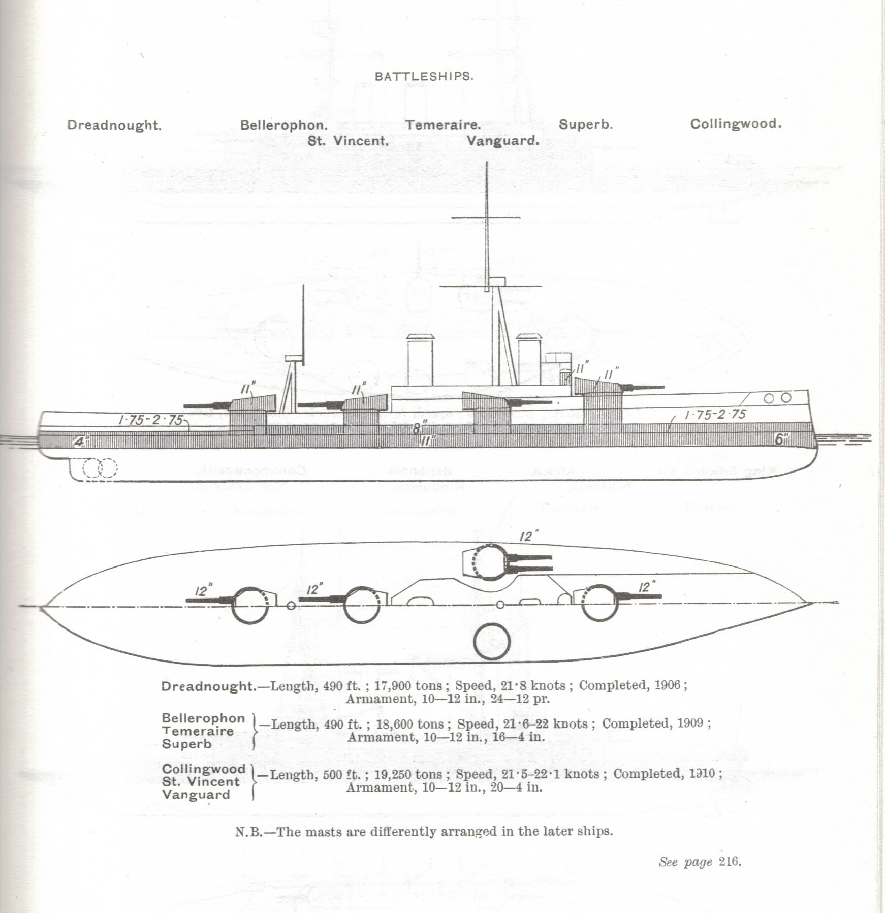 Elevation plan and technical description of battleship HMS Dreadnought.